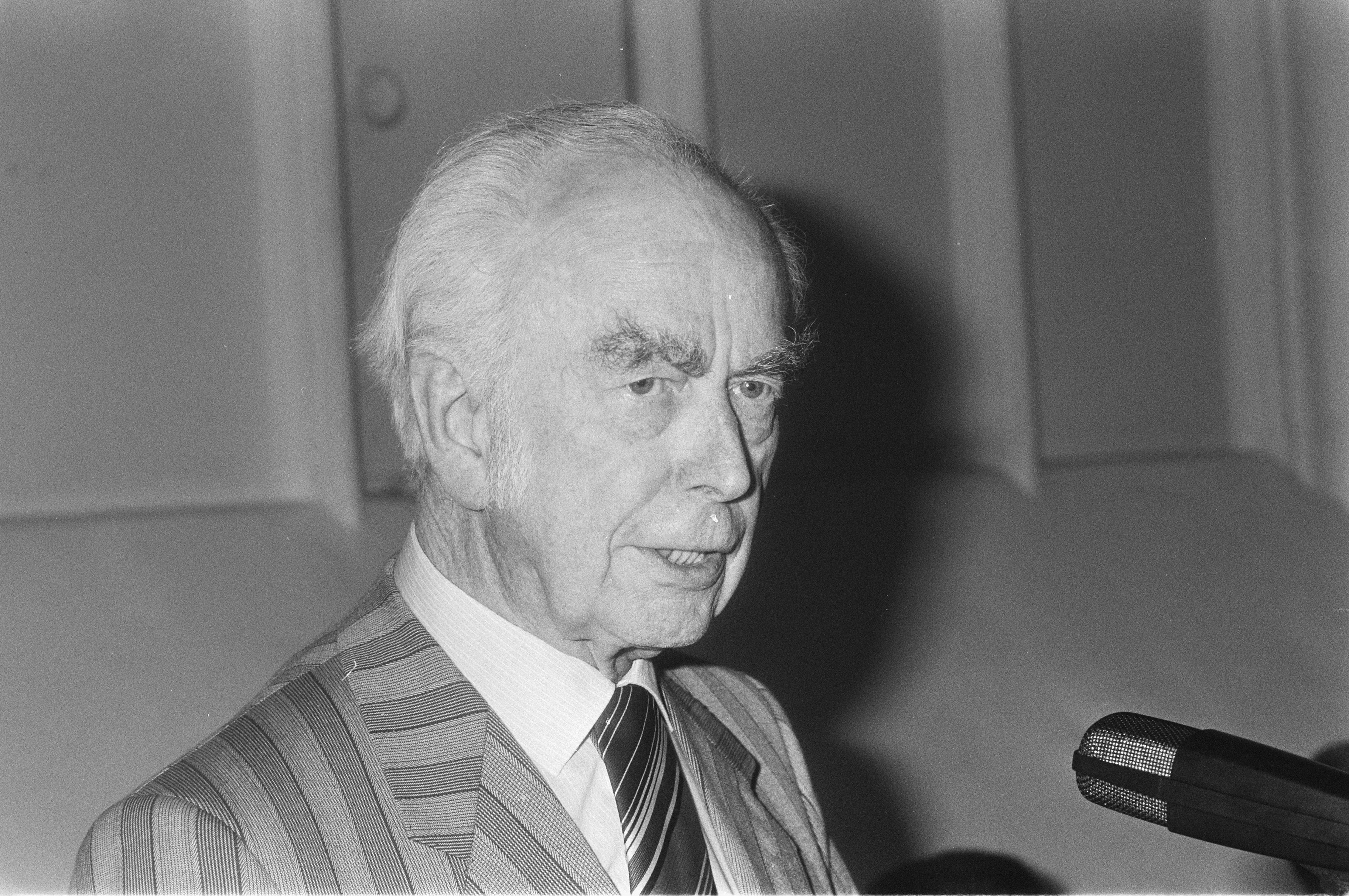 Marten Toonder (1986). Geertjan Lubbenhuizen Prize at Nieuwe Kerk (Amsterdam, the Netherlands)